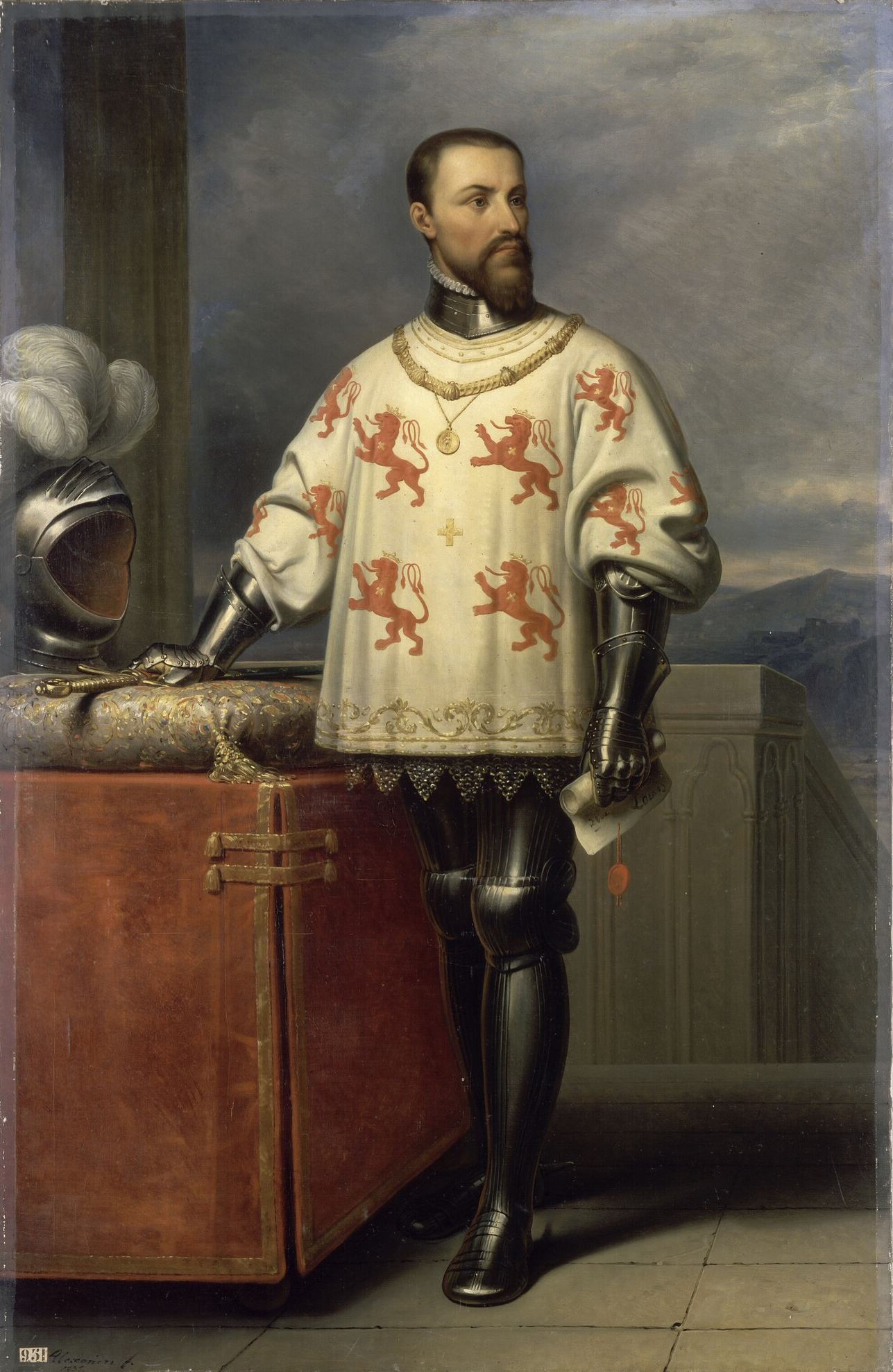 Louis de Luxembourg, comte de Saint-Paul, connétable de France en 1465 (1418-75).